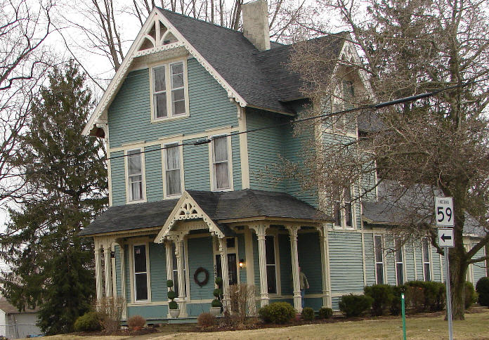 Front of the George Seybold House, located at 111 E. Main Street in Waveland, Indiana, United States. Built in 1886, it is listed on the National Register of Historic Places.